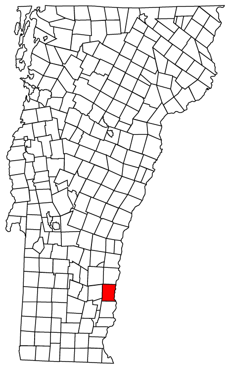 Description: Map of Vermont towns with Rockingham highlighted Source: Map created by Jared C. Benedict on 26 March 2004. Copyright: © Jared C. Benedict.